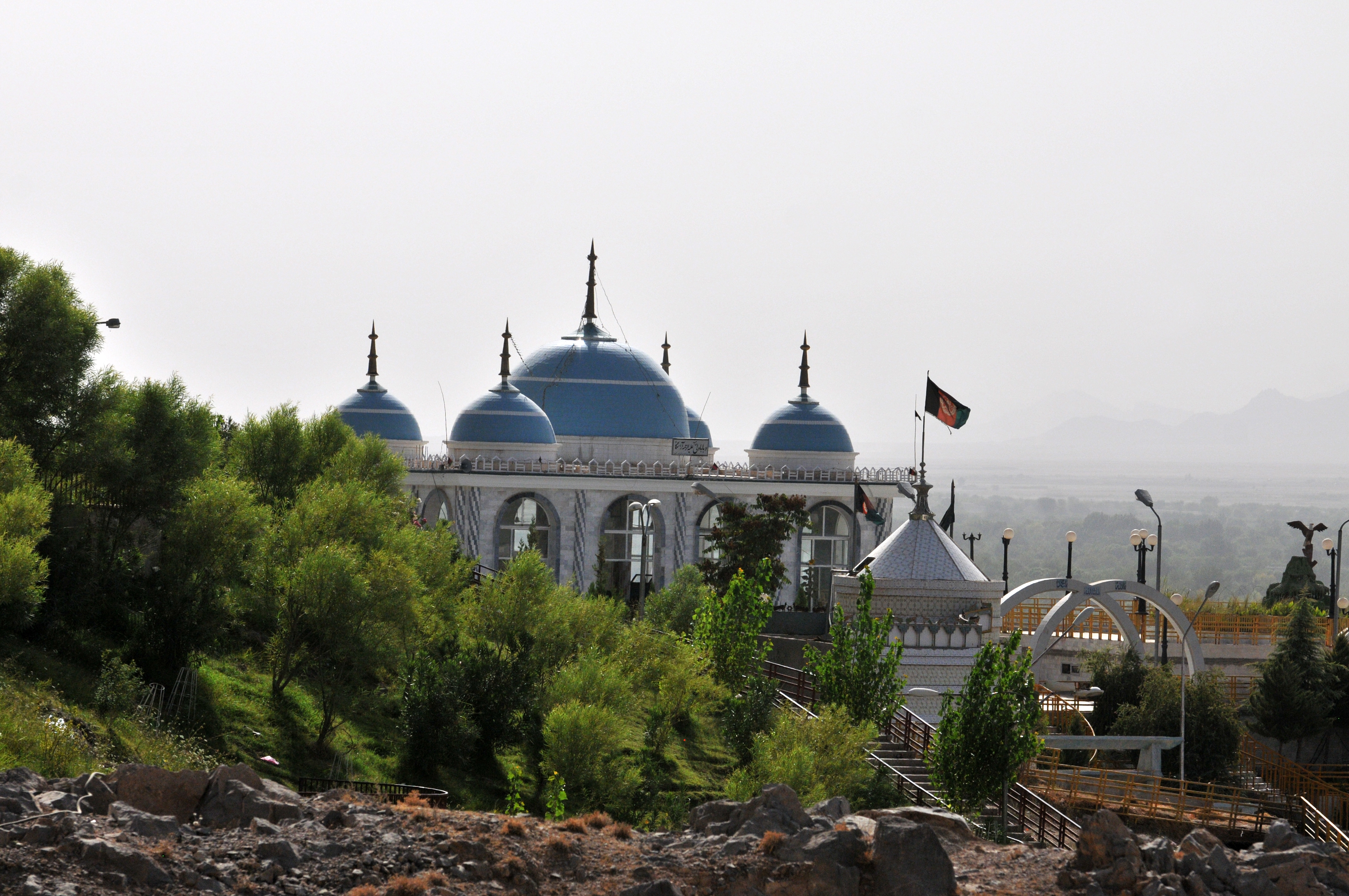 Marine Corps Gen. John R. Allen, commander of NATO and International Security Assistance Force (ISAF) troops in Afghanistan, meets with and thanks military and civilian personnel for their service and sacrifice while attending a meeting at the Arghandab District Center during a battlefield circulation to Regional Command-South (RC-S), Kandahar province, July 21. Army Maj. Gen. James Terry, commander, RC-S, also attended the meeting. ISAF is a key component of the international community's engagement in Afghanistan, assisting Afghan authorities in providing security and stability while creating the conditions for reconstruction development.